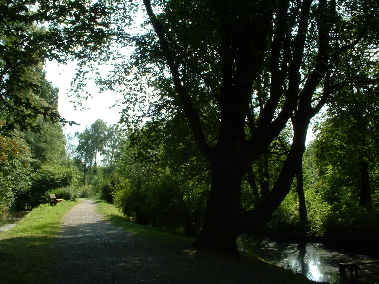 View of the castle park, Laupheim